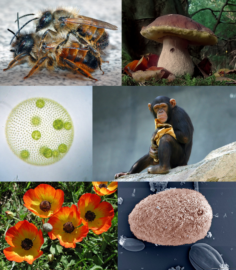 Eukaryotes and some examples of their diversity; compilation